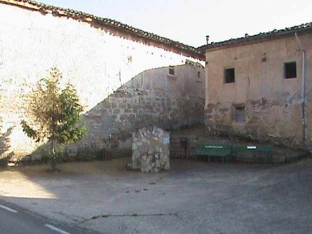 Village's main square in honour to Saint Thomas. Build at the end of XX century.